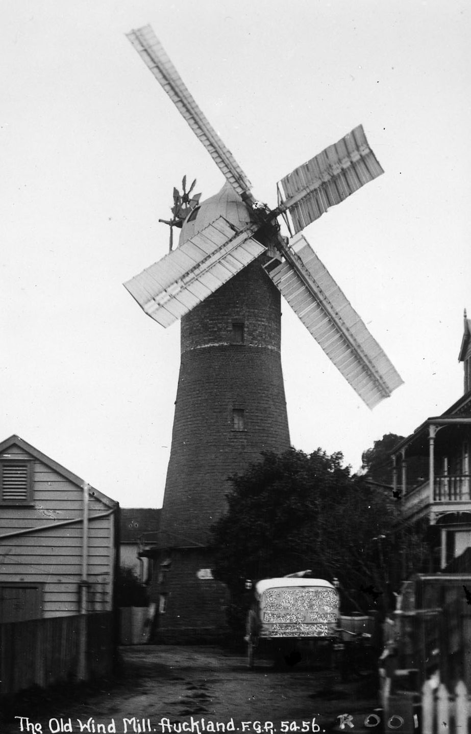 Partington's Windmill Photograph by Frederick George Radcliffe